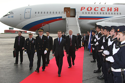 FRANCE. Arrival to Nice.